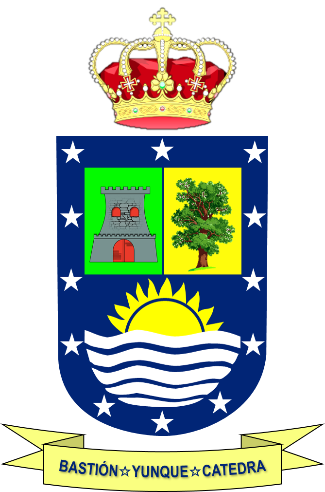 Concepcion Department Coat of Arms